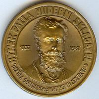 Medal of the Czech composer Hynek Palla. Avers